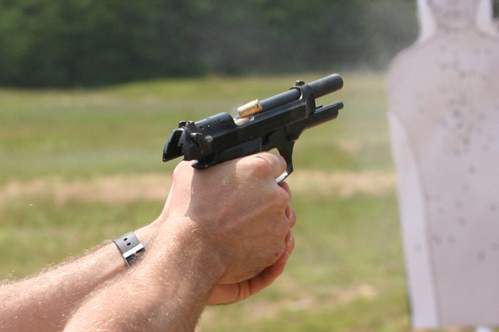 Close-up of Beretta M9 during firing with casing being ejected